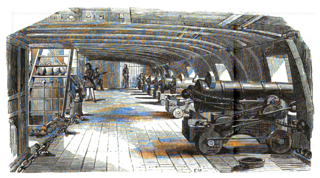 Illustration from La Marine, by Pacini.